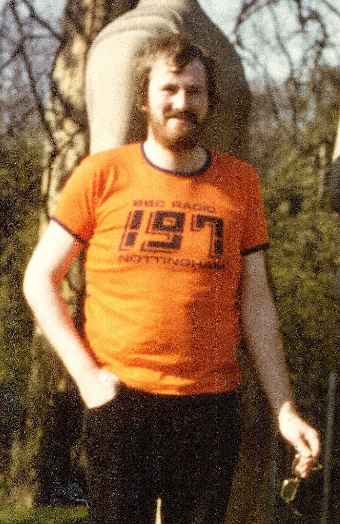 The radio broadcaster John Shaw in a BBC Radio Nottingham T-shirt in Battersea Park, London, England, in the early 1980s.